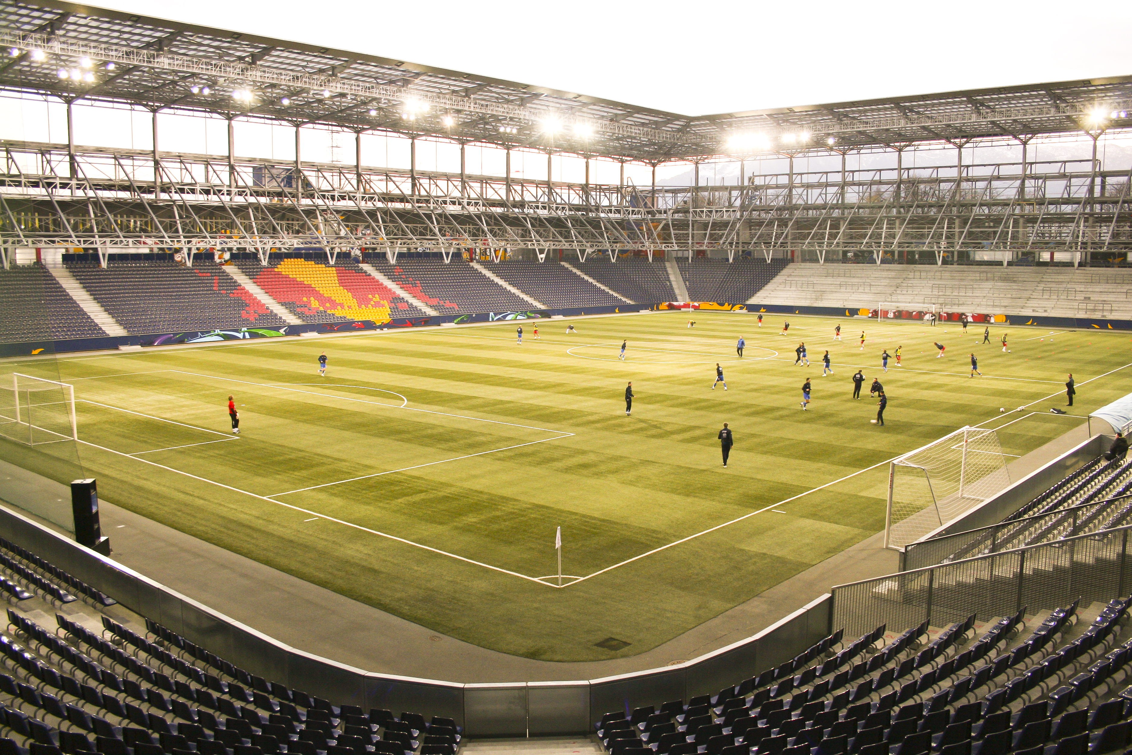 EM-Stadion Wals Siezenheim